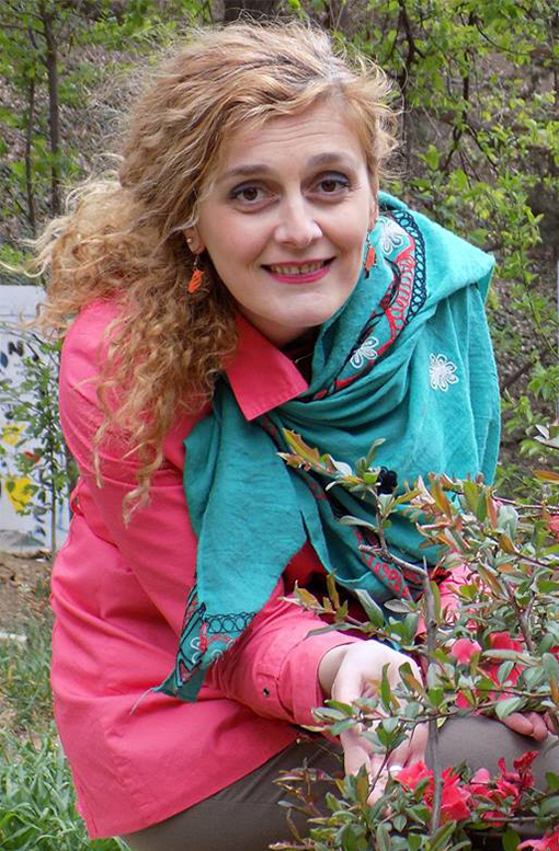 Nino Sadgobelashvili, 2017